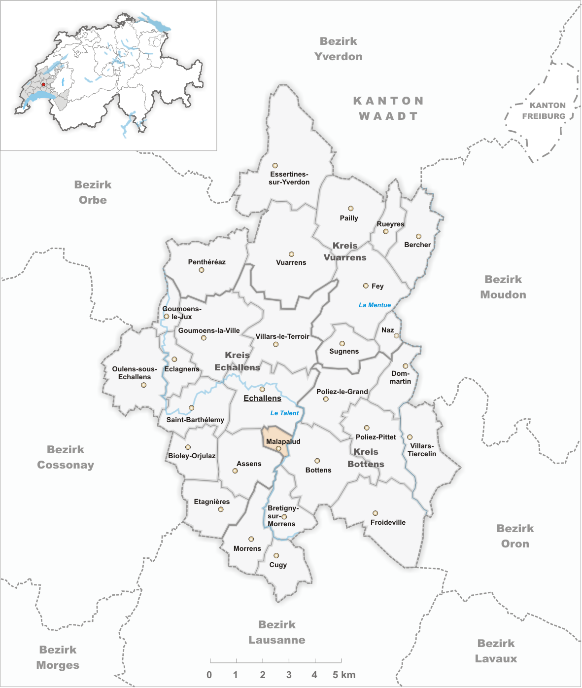 Municipality Malapalud